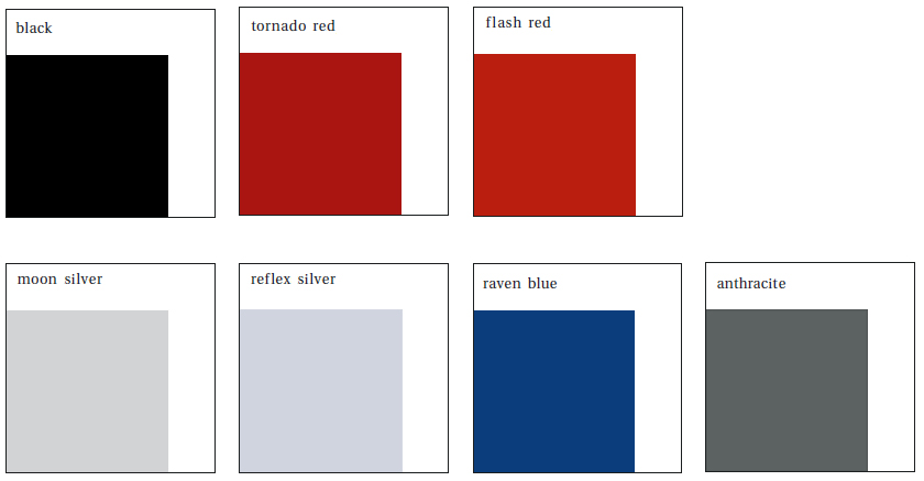 VW Lupo GTI Paint colours